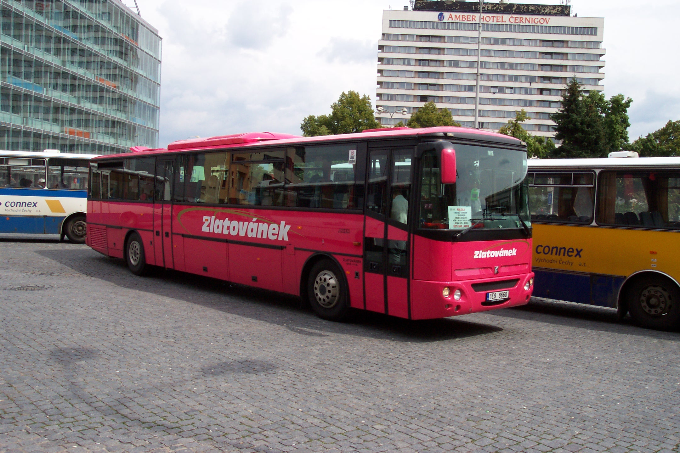 Bus type Karosa Axer at Hradec Králové, Czech Republic